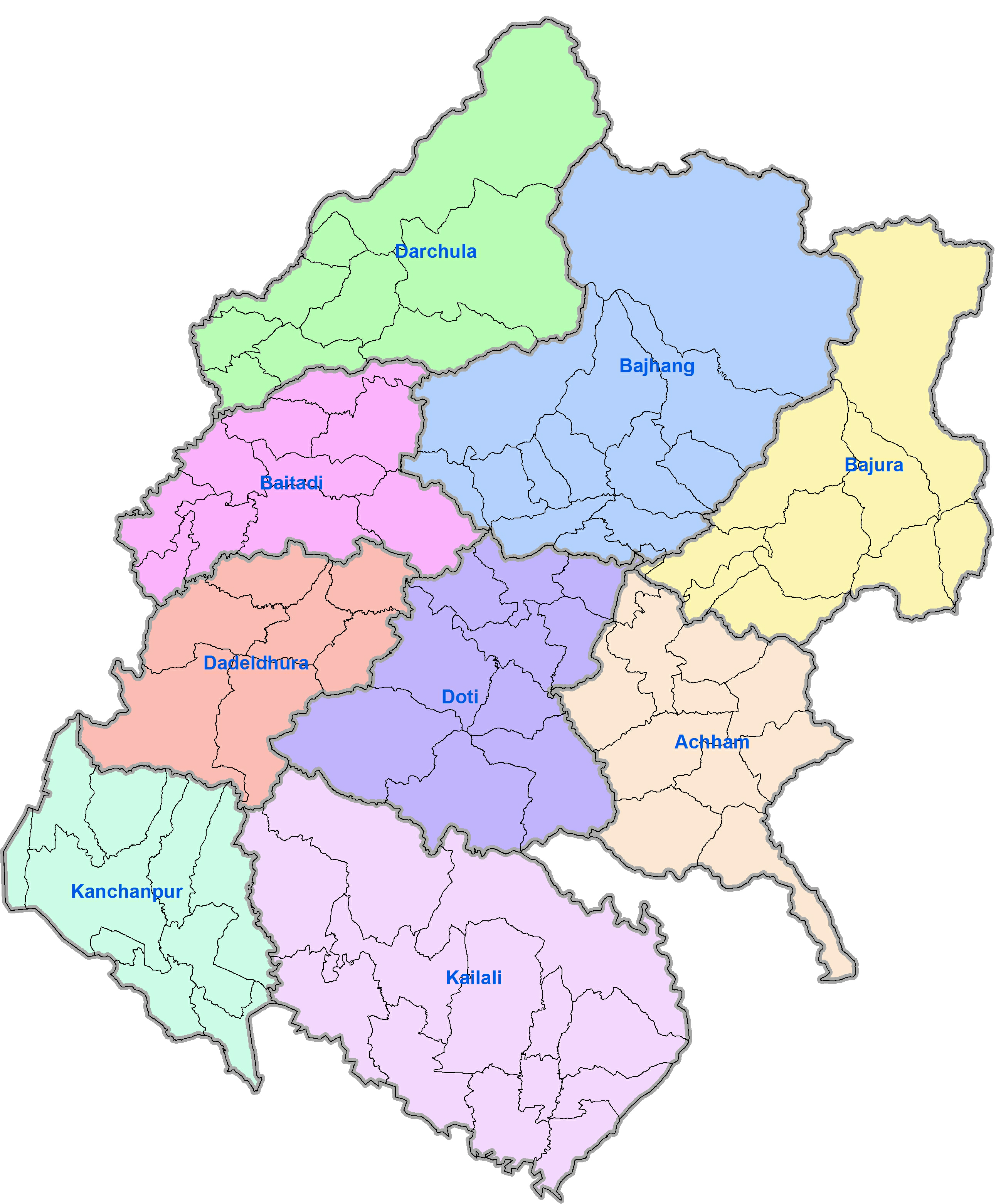 Map of province no. 7